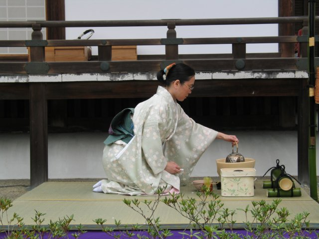 A woman wearing kimono performs a tea ceremony. It is not clear which specific style of ceremony is being performed, but visible in the image are the kettle, the ro, and the tea bowl. The object at the far right of the image is a bamboo marker which marks the seating position of the host. Such markers take many forms; this one is somewhat unusual, but is of a type used for outdoor ceremonies.